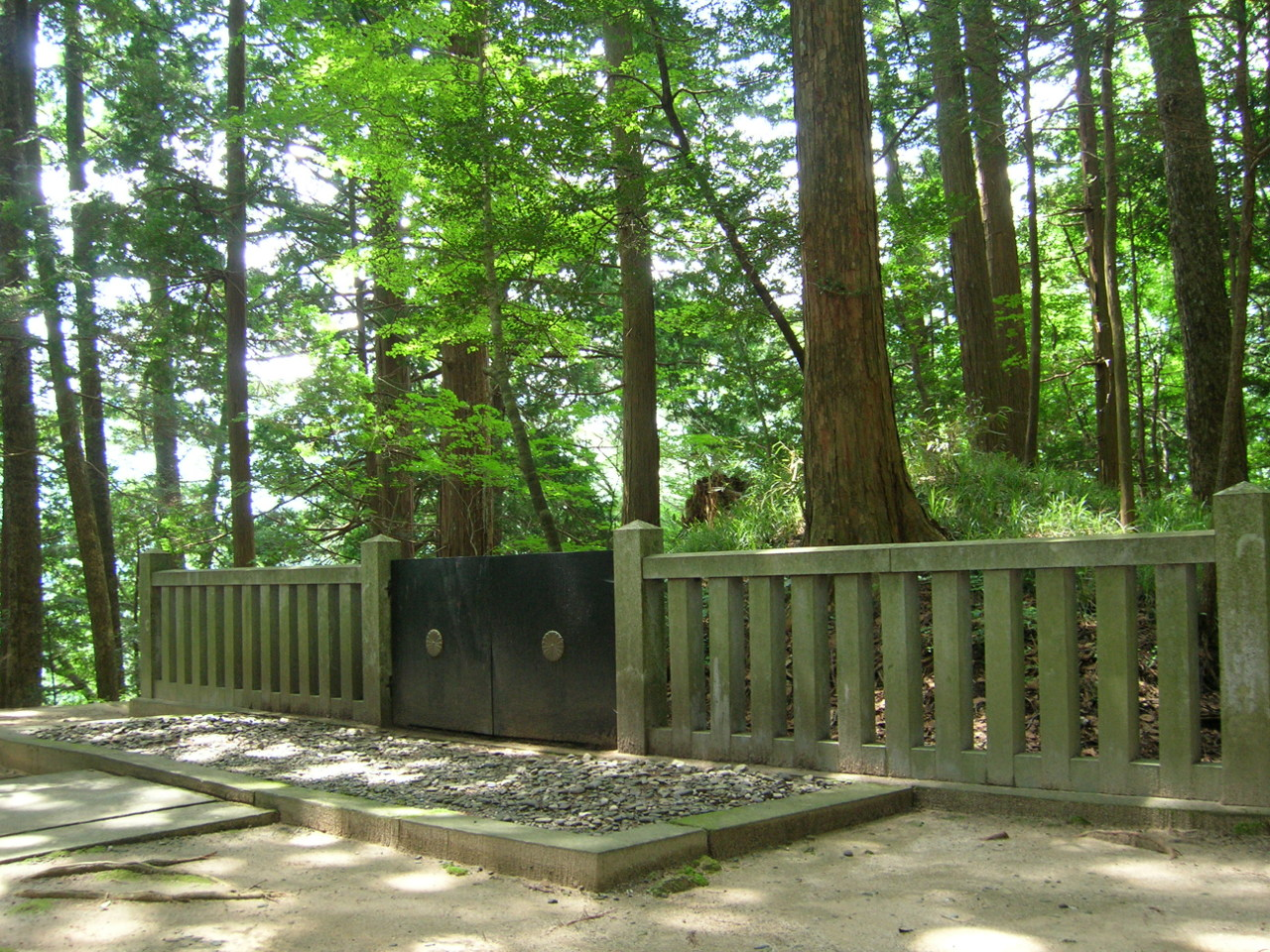 Tomb of a Prince-Tadayoshi Loc: Achi village, Shimoina District, Nagano prefecture, Japan.